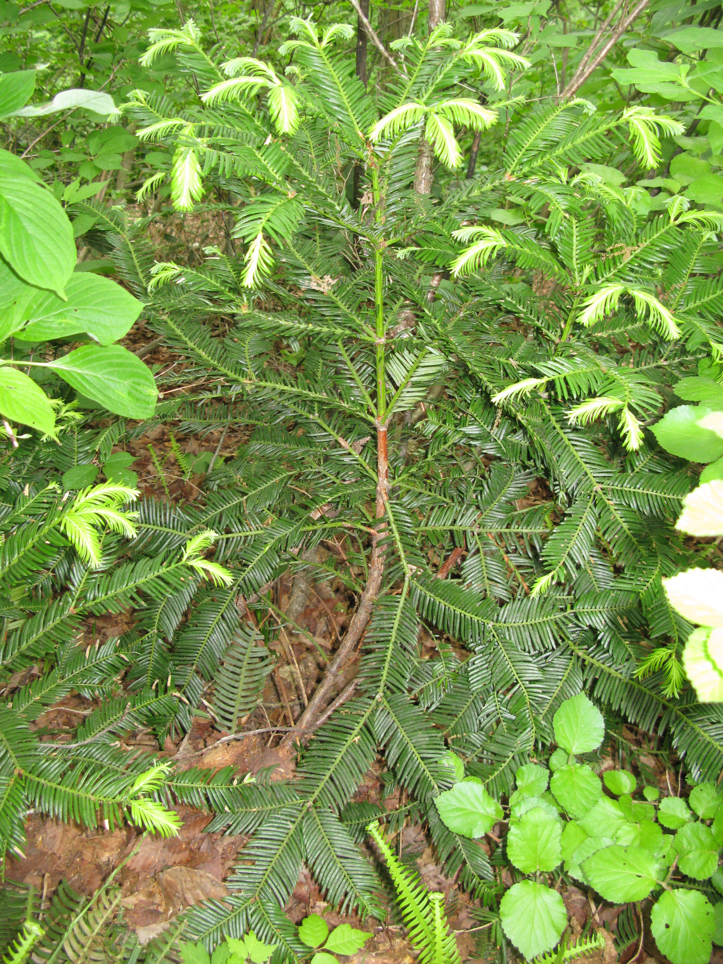 Cephalotaxus harringtonii var. nana, Tree, Aizu area, Fukushima pref., Japan